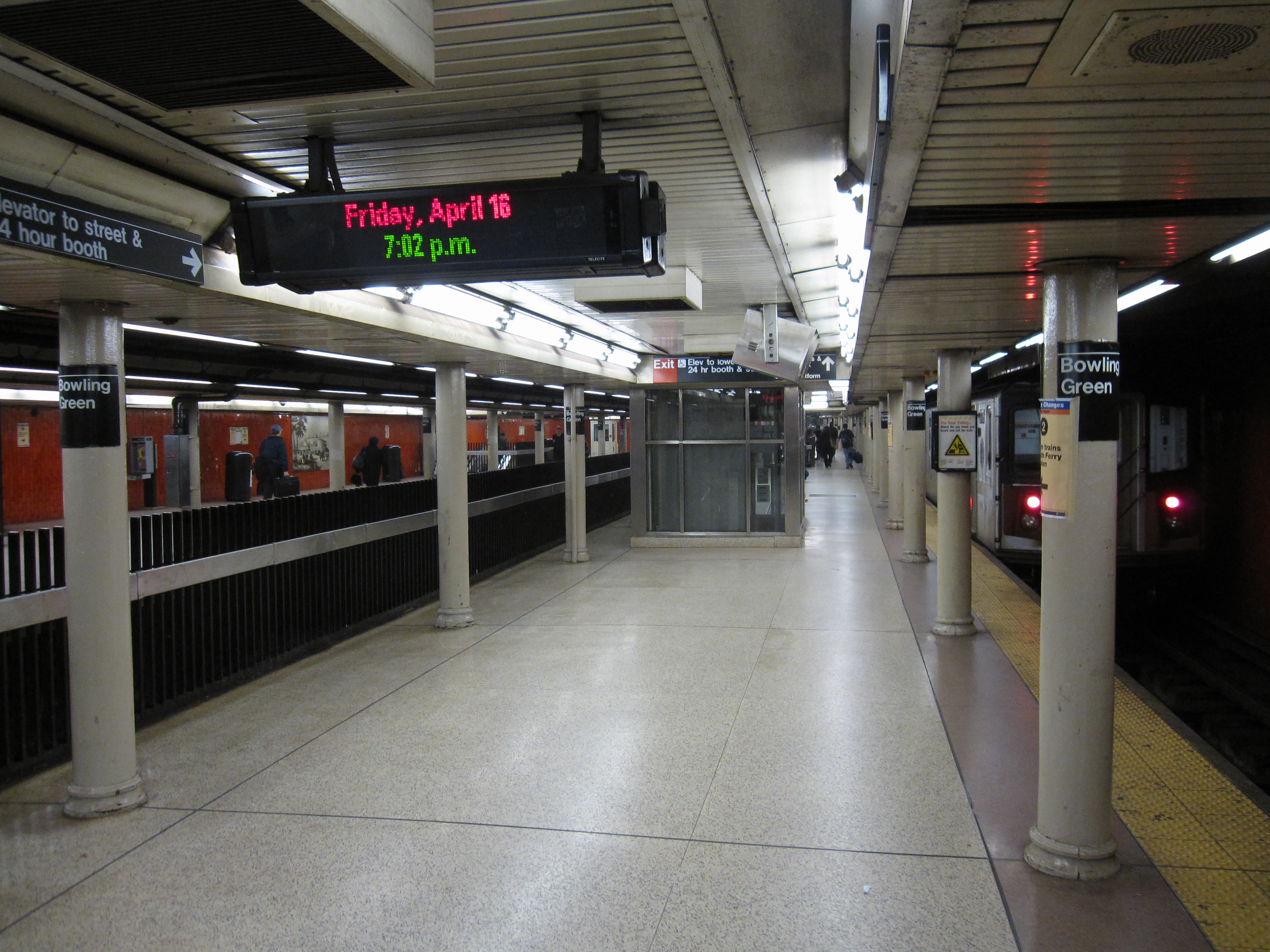 Bowling Green (IRT Lexington Avenue Line)